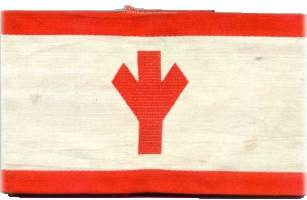 Arm Band HJ-medical-service